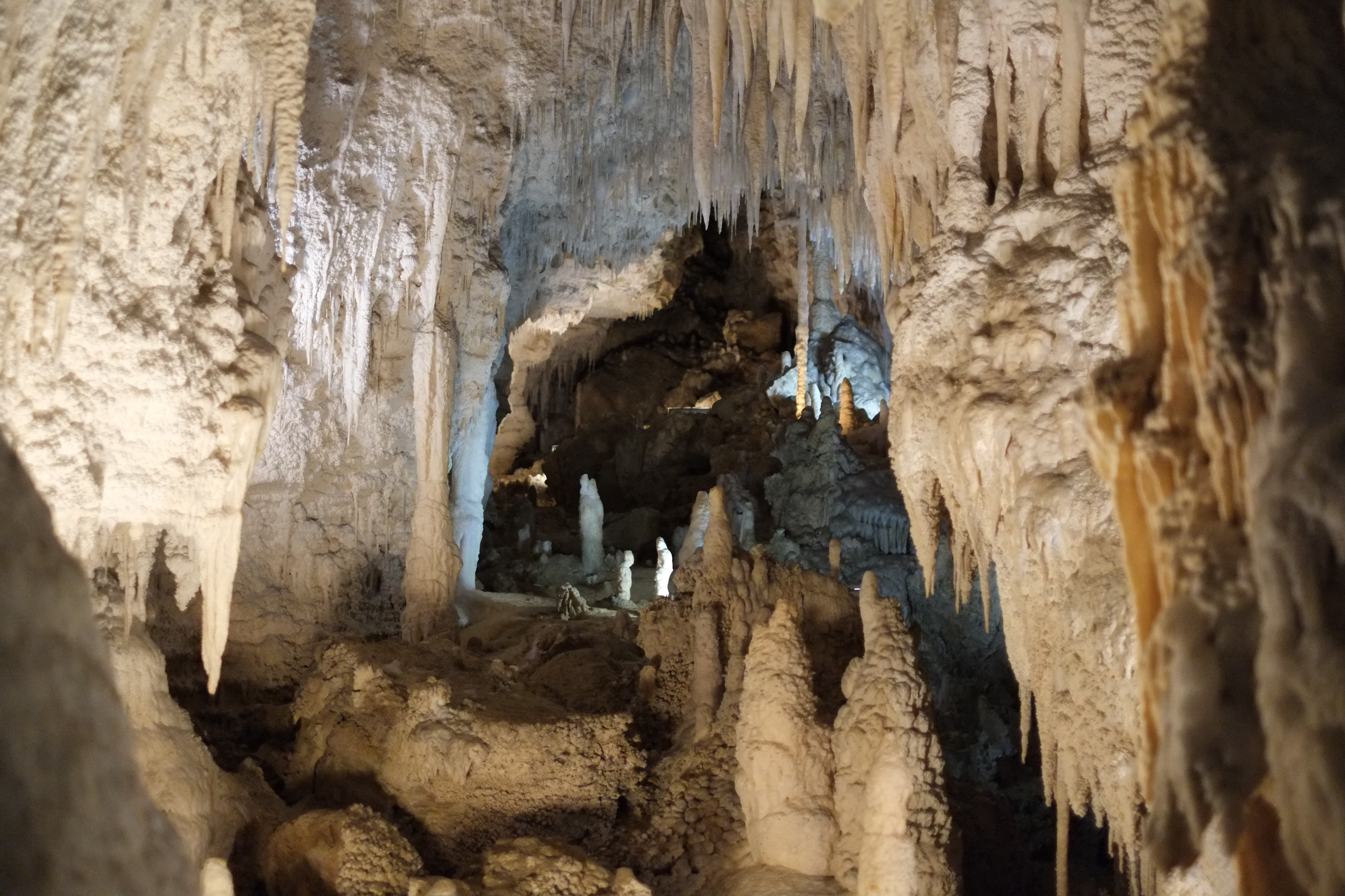 Stalactites, stalagmites and columns in Fairy Cave in Aranui Cave